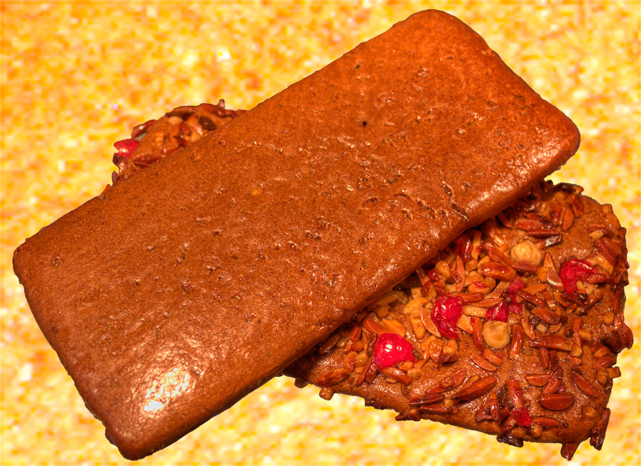 Aachener Printen are a type of Lebkuchen originating from the city of Aachen in Germany. The term is a protected designation of origin and so all manufacturers can be found in or near Aachen.